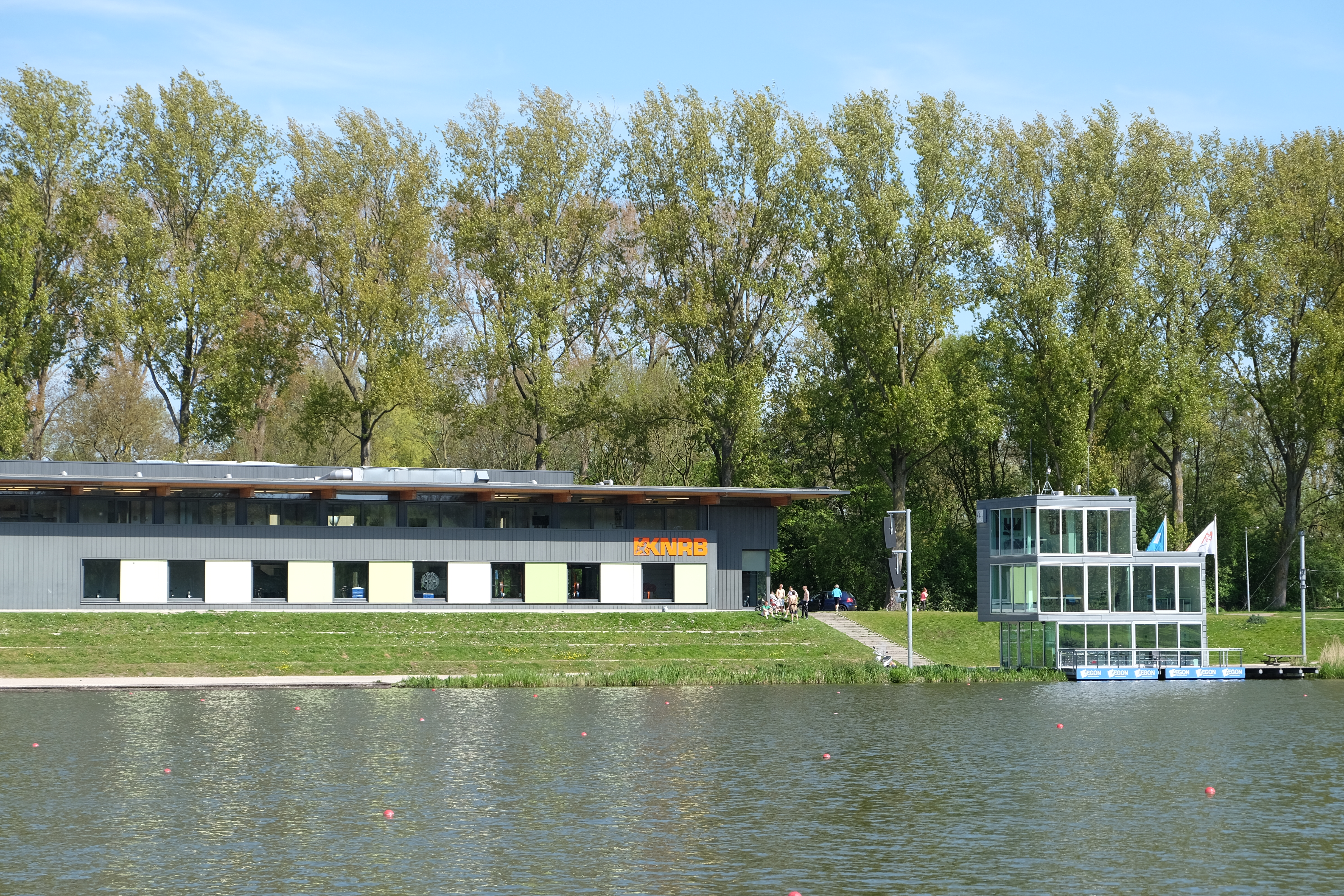 The headquarters of the Royal Dutch Rowing Federation (KNRB) at 10 Bosbaan, Amstelveen, the Netherlands.